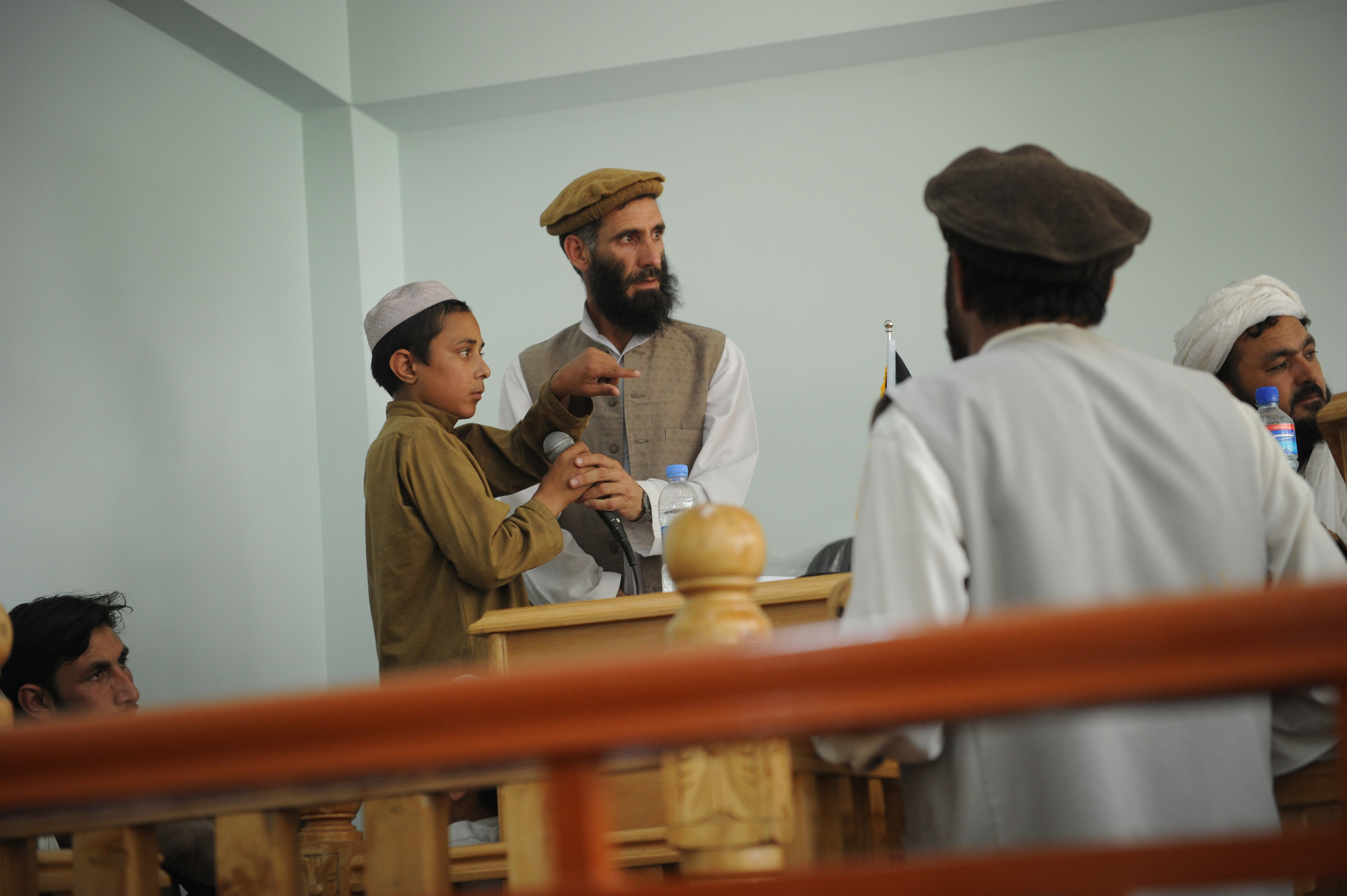 A young plaintiff testifies during a public criminal trial at the new courthouse in Asadabad, Kunar Province, Afghanistan, on Monday, May 9, 2011.